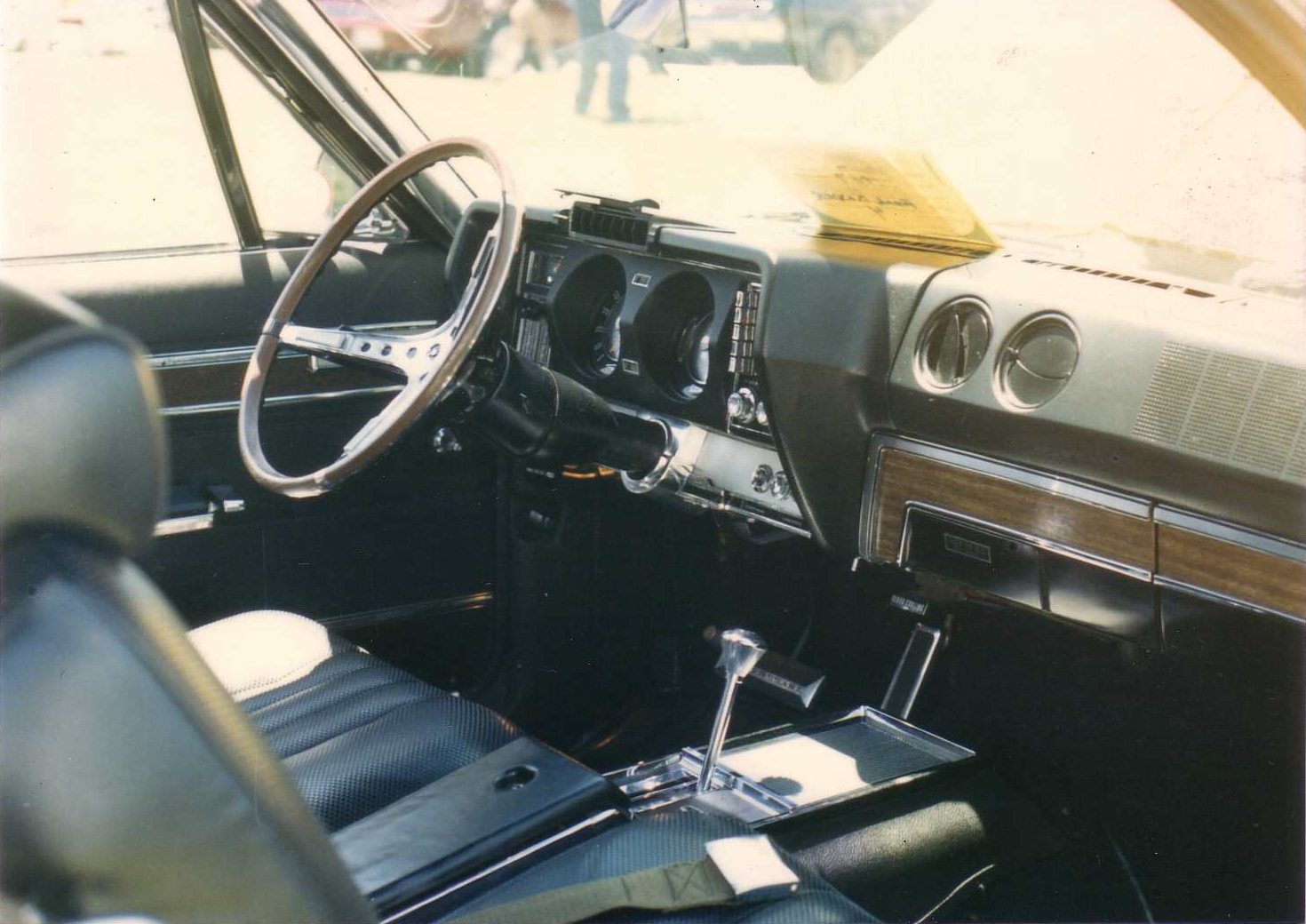 1967 AMC Marlin - a full-sized "personal luxury" two-door fastback made by American Motors Corporation. Front passenger compartment in this 1967 Marlin. This car has automatic transmission on center console, power windows, adjustable "tilt" steering wheel, cruise-control (not visible in this picture), and air conditioning.